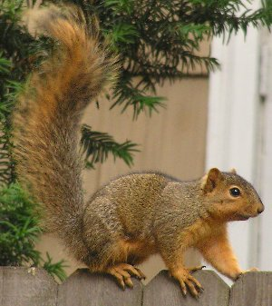 Sciurus niger, Fox squirrel, near Cleveland, Ohio